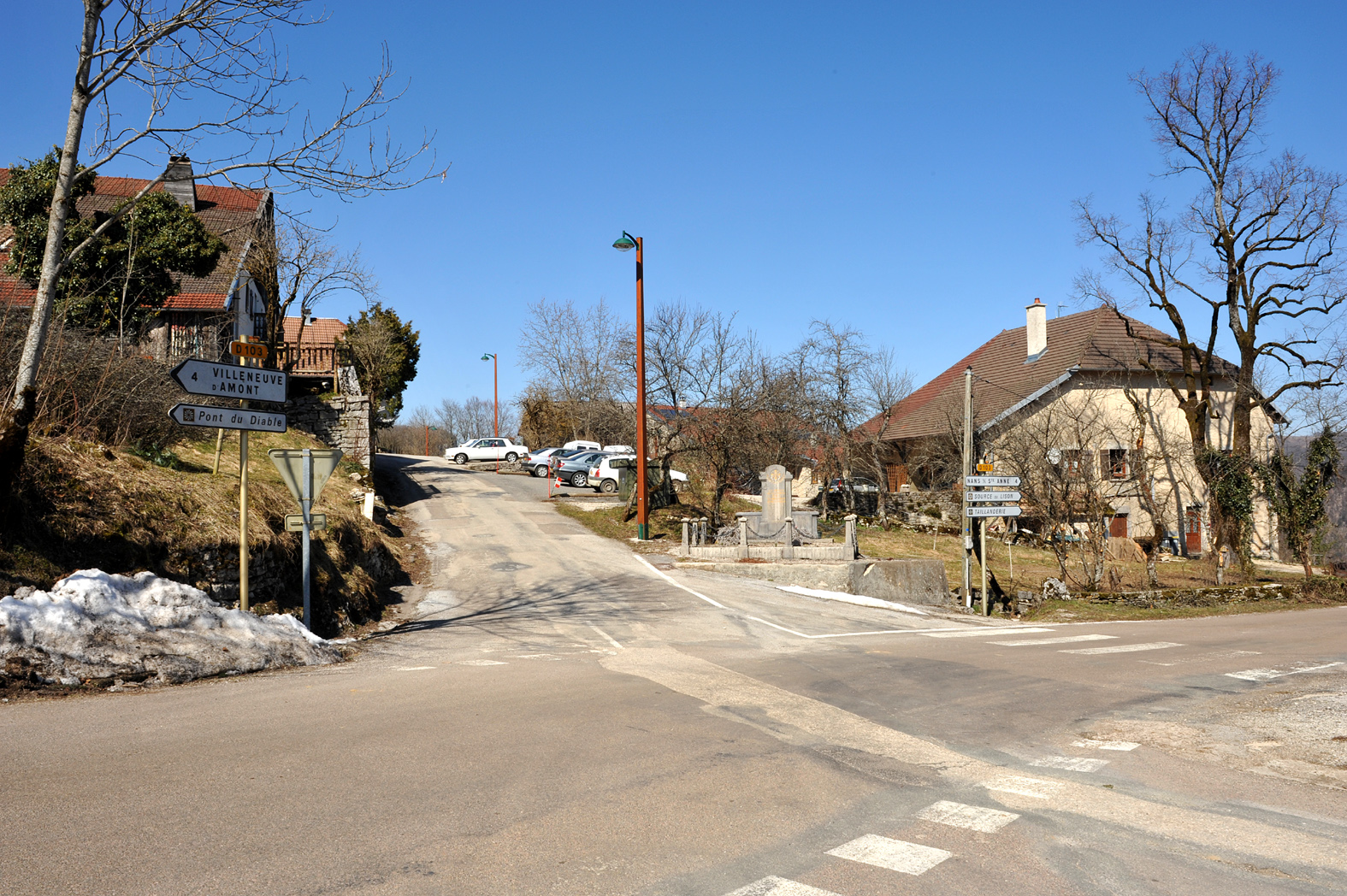 Crossroad in Crouzet-Migette; Franche-Comté, France.